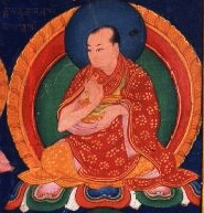 Kyobpa Pel Zangpo, 12th Century Tibetan Translator